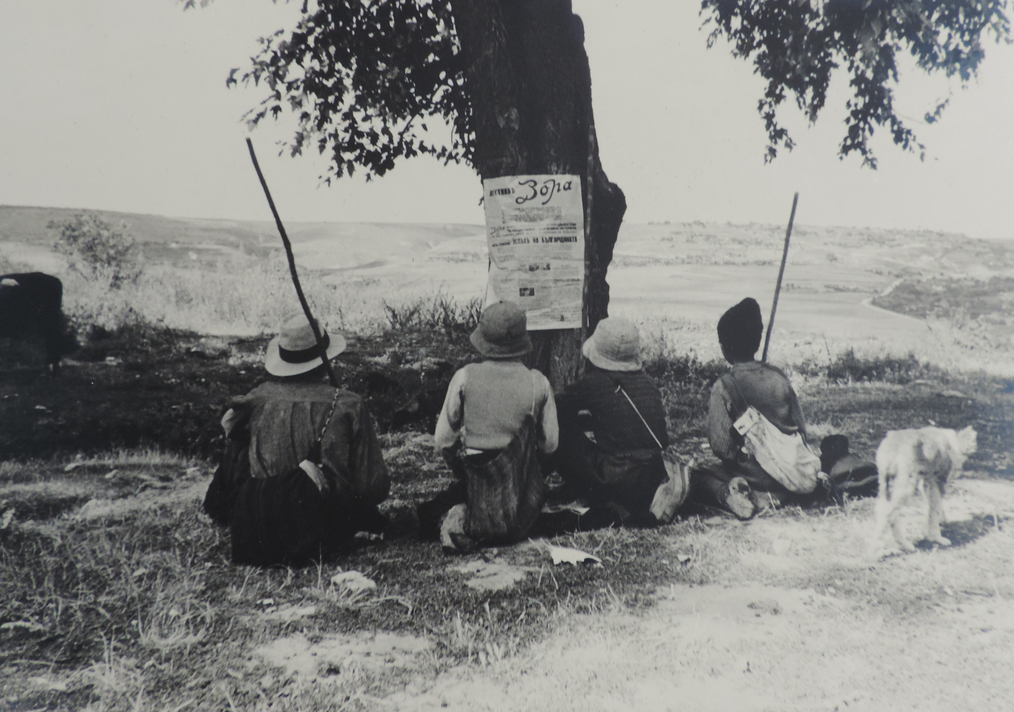 Shepherds read the newspaper Dawn, hooked on a tree, after the region became part of Bulgaria, September 1940.